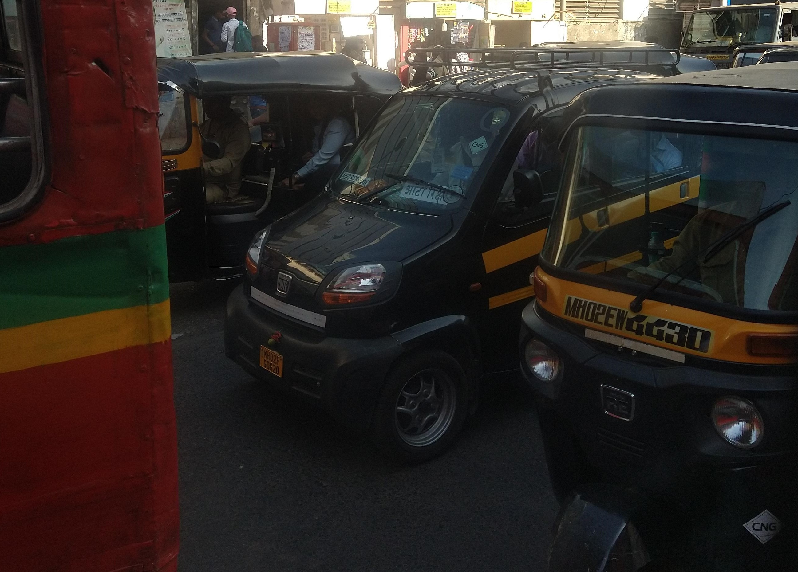 Bajaj Qute being used as an Auto-Rickshaw at Andheri Station, Mumbai